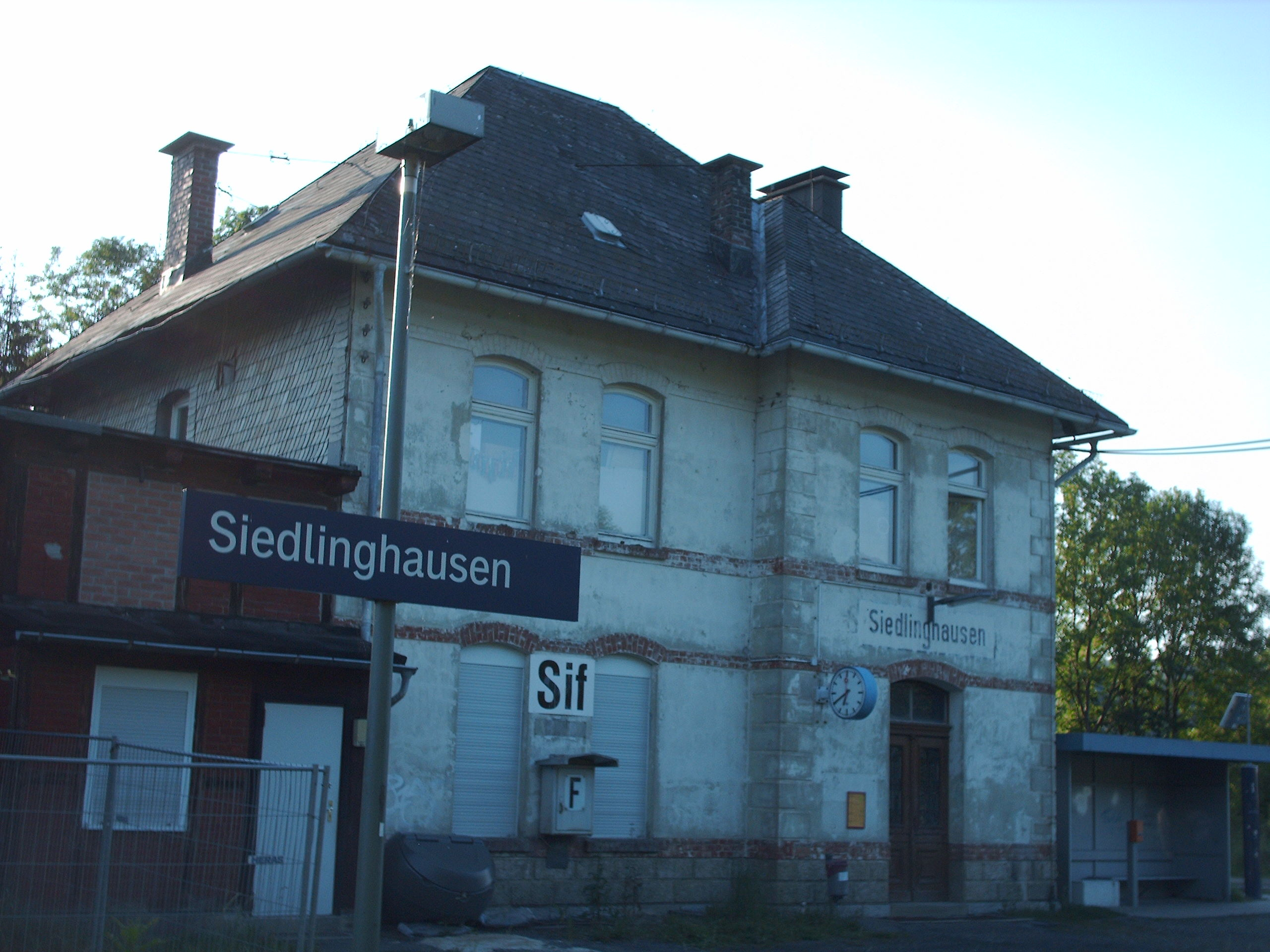 Siedlinghausen station, Winterberg, Germany check usage